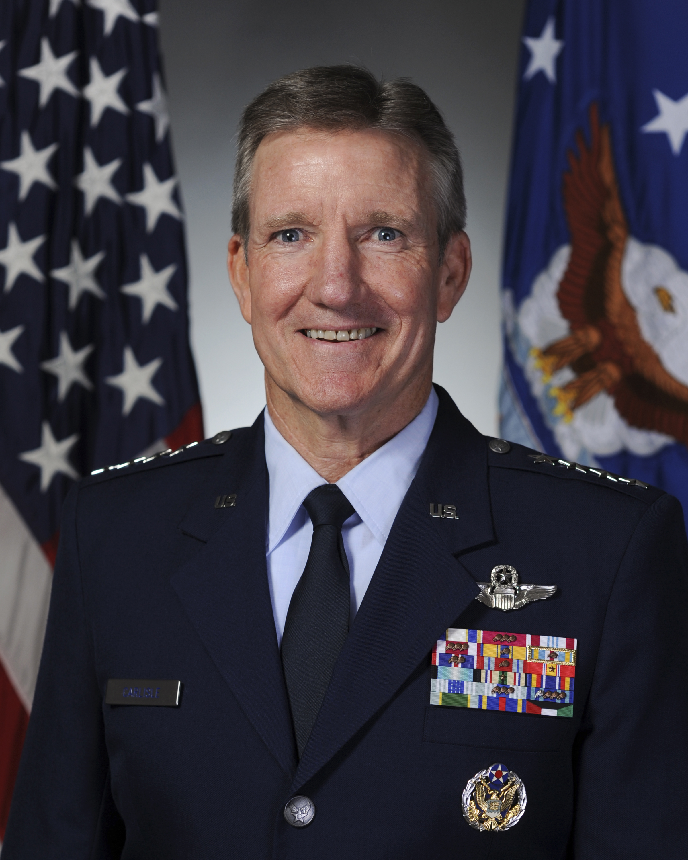 General Herbert J. Carlisle, USAFCommander, Pacific Air Forces